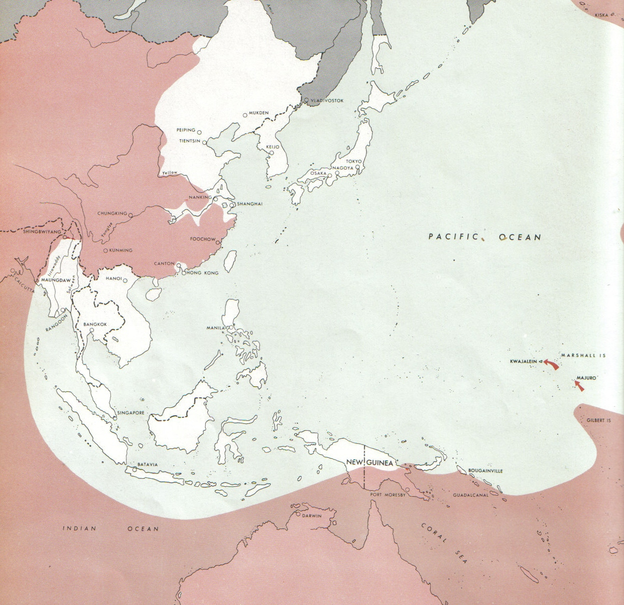 Map of the front against Japan as of 1 Feb 1944: This map is taken from the source "Atlas of the World Battle Fronts in Semimonthly Phases to August 15th 1945: Supplement to The Biennial report of The Chief of Staff of the United States Army July 1, 1943 to June 30 1945 To the Secretary of War". (See Cover, Forward and Map details)